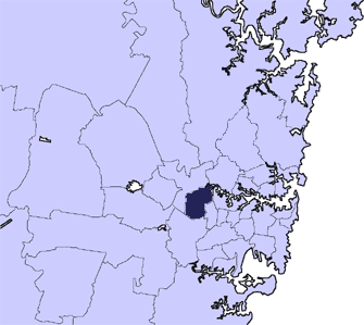 Locator Map Auburn lga sydney.png Based on Image:Ku-ring-gai sydney.png by User:Randwicked.